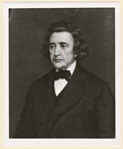 The bavarian macroeconomist Friedrich Benedikt Wilhelm von Hermann (1795-1868)